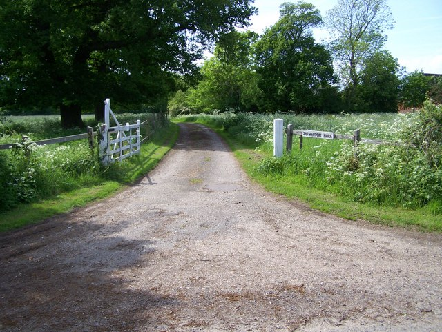 Sotherton Hall entrance The entrance and track to Sotherton Hall